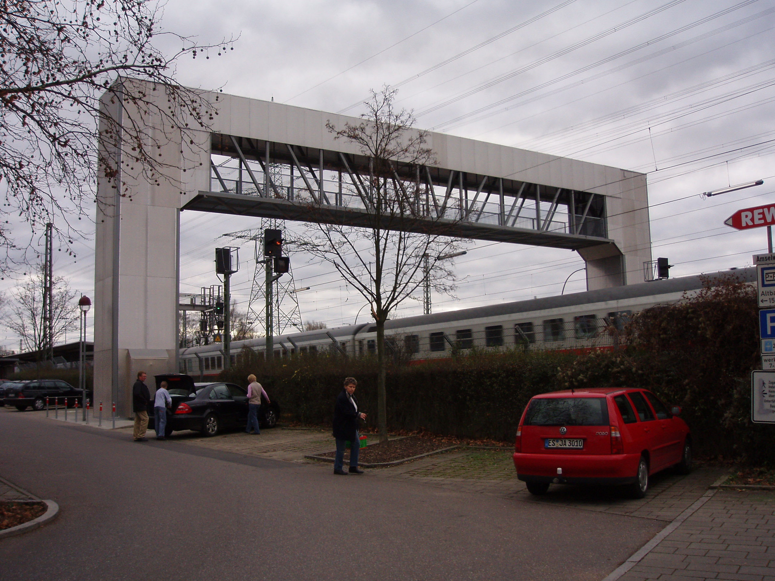 People Mover Bahnhof Altbach